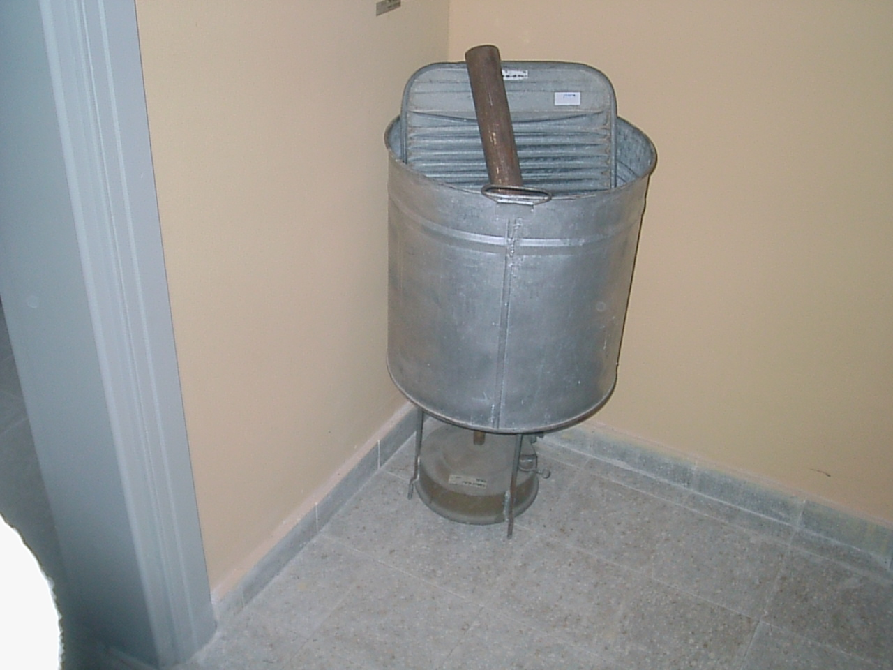 washing boiler, Settlements in Israel